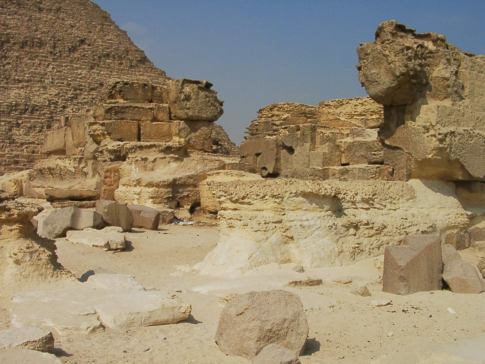 Entrance of Khafre's mortuary temple. Here joined the causeway to the first, two-pillared hall. Note the size of the wall blocks behind.